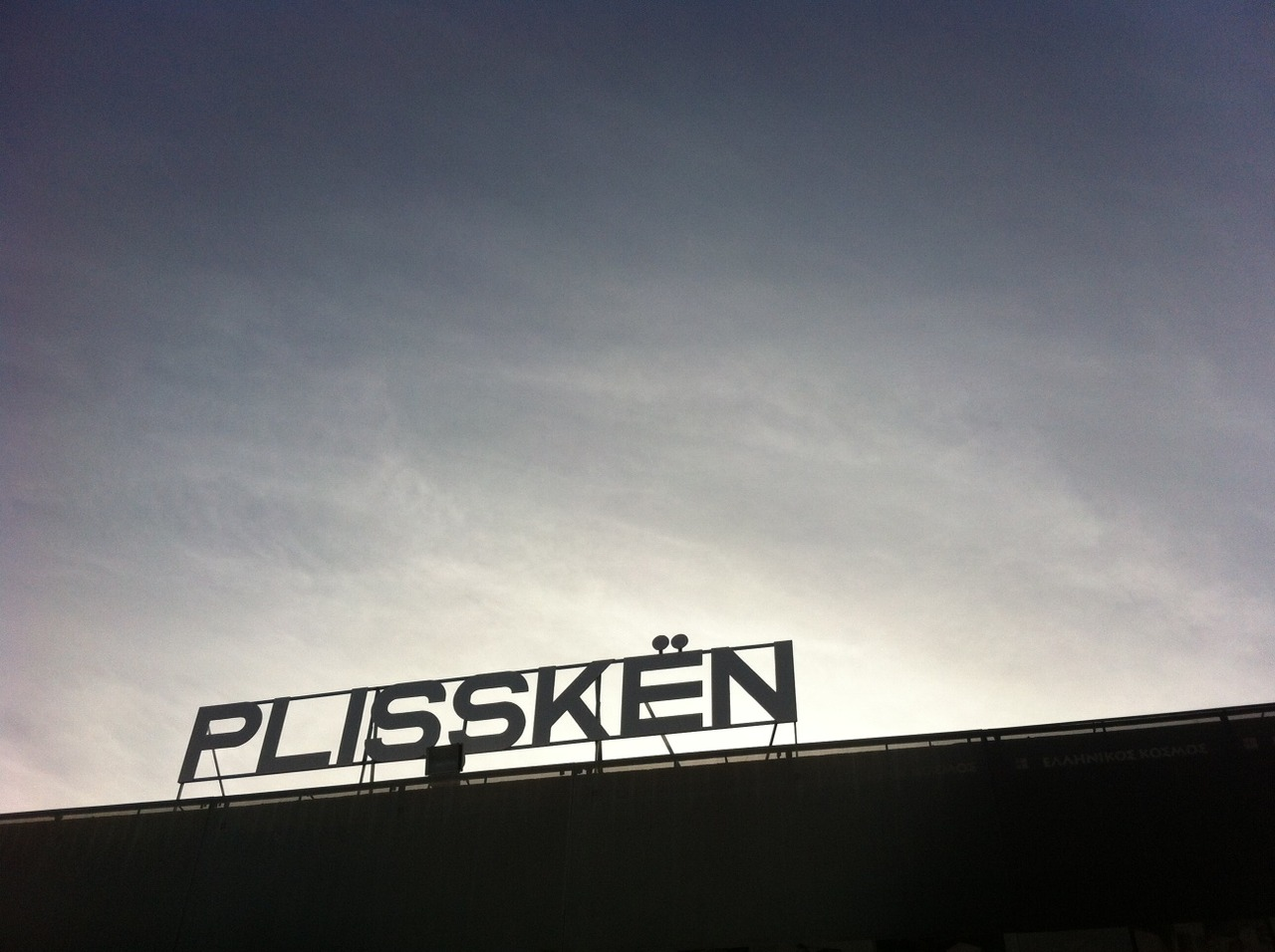 Plisskën Festival sign taken during the festivals third edition in May, 2013.